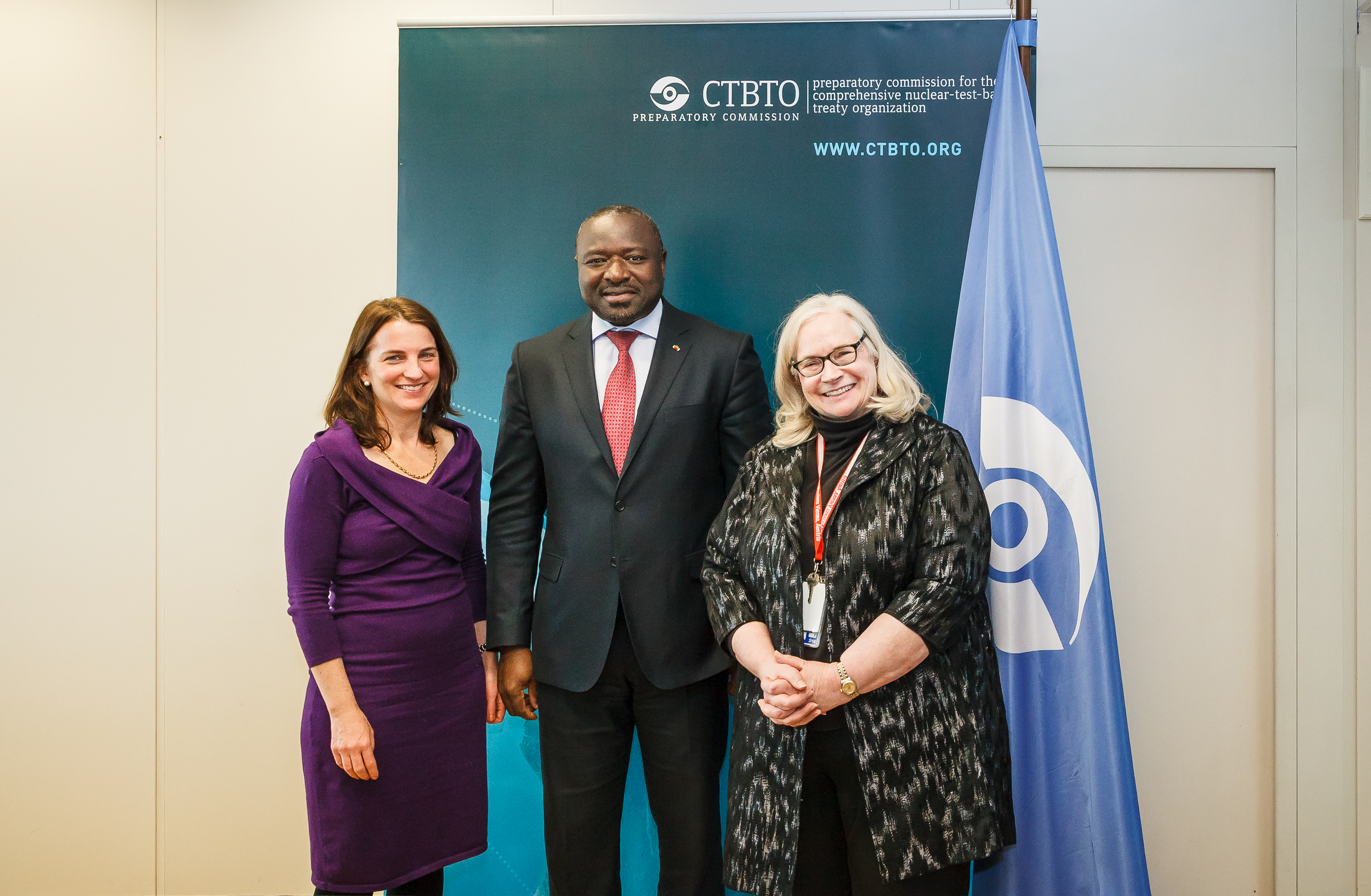 Ms Bathsheba Nell Crocker, (left) Assistant Secretary of State for International Organization Affairs, USA, and Ambassador Laura Kennedy, Chargé d'Affaires of the Permanent Mission of the United States to the UN Vienna (right) are paying a courtesy visit to the Executive Secretary of the Preparatory Commission for the Comprehensive Nuclear-Test-Ban Treaty Organization, on Wednesday, 4 March 2015.